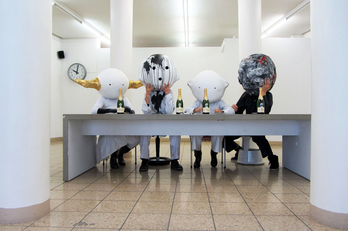 Nina Staehli, artist & performer